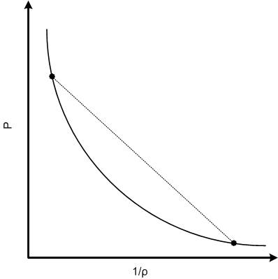 Sketch of hugoniot and raleigh line